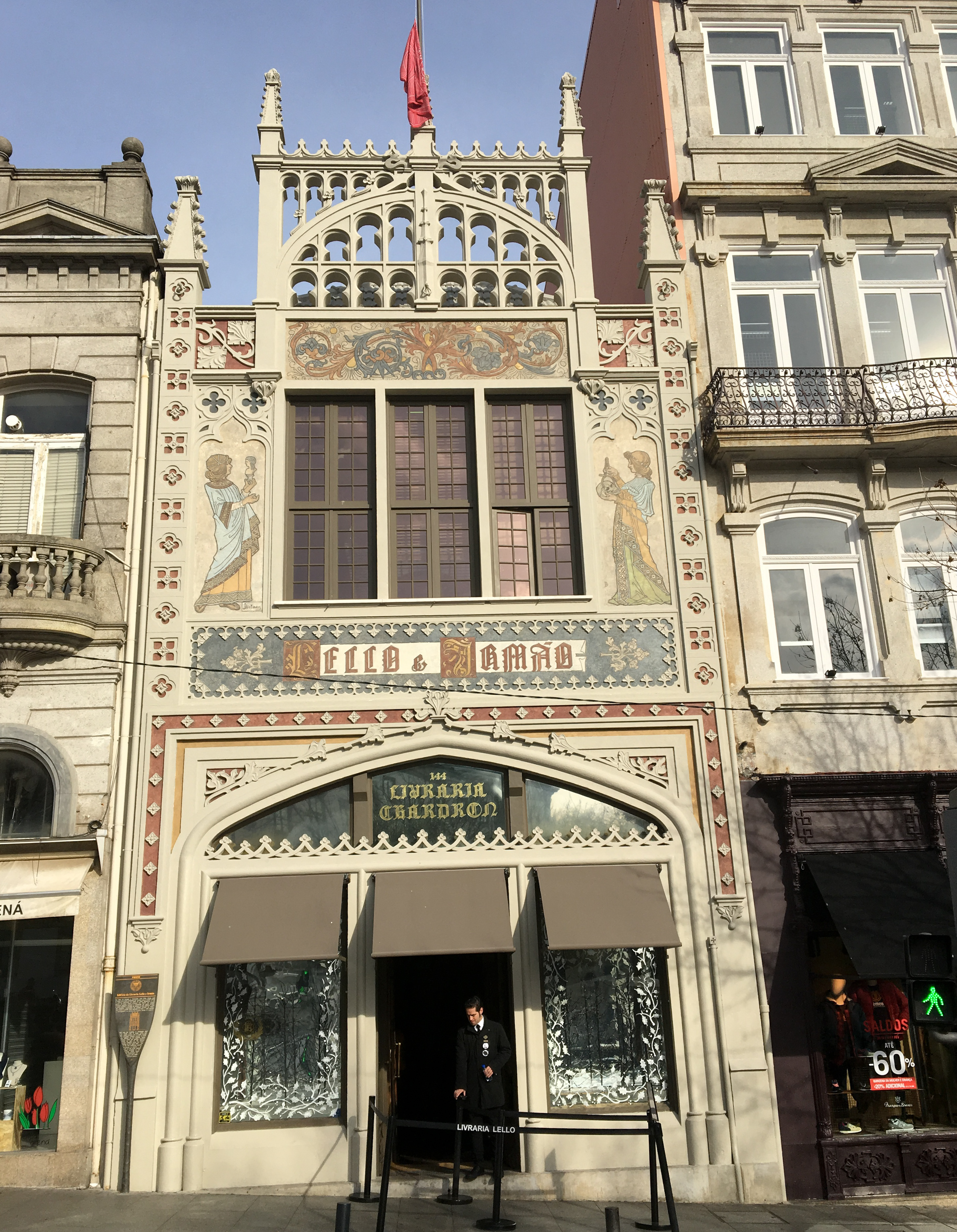 Photo uploaded by PicBackMan